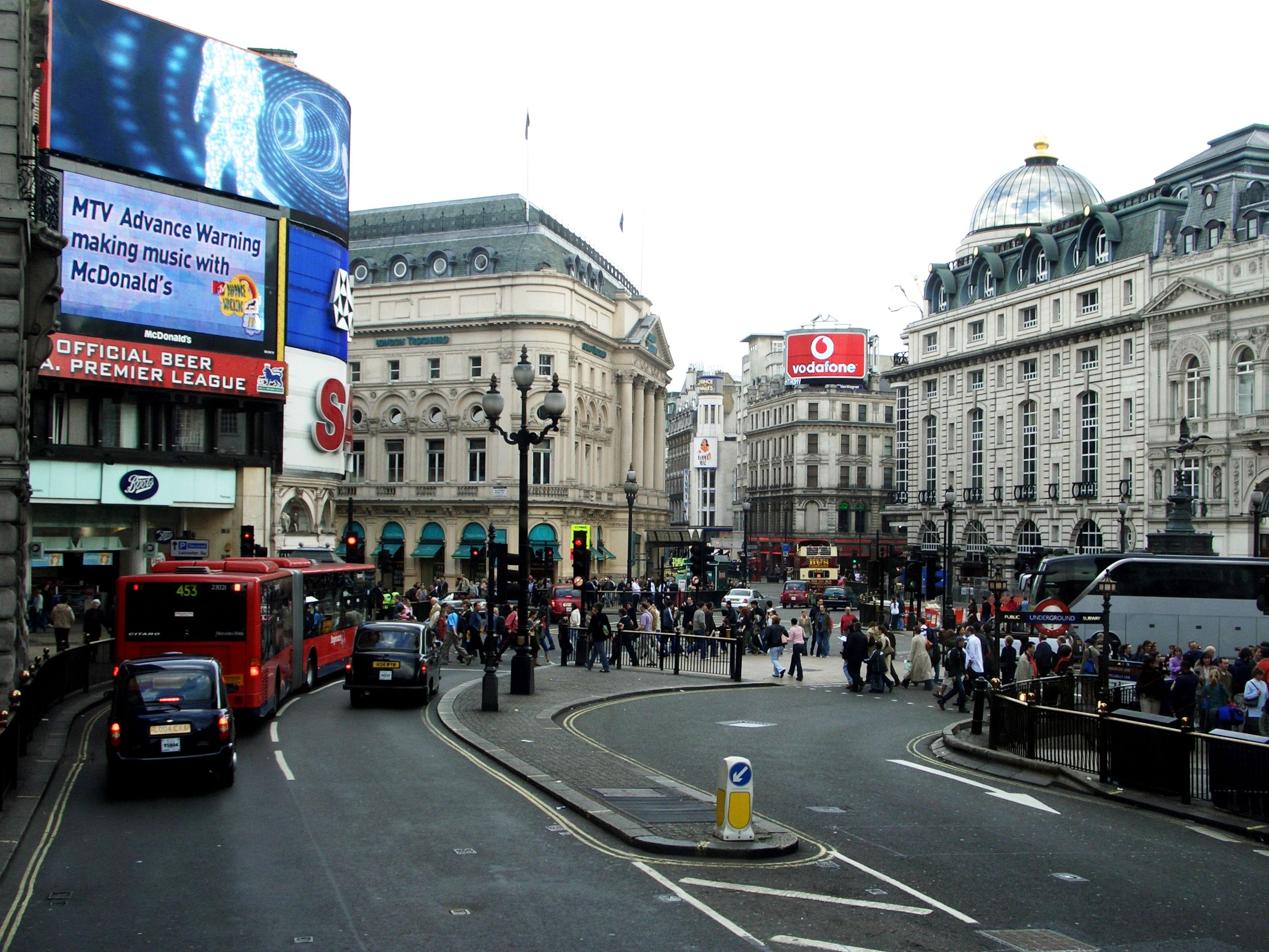 Londres - Piccadilly Circus